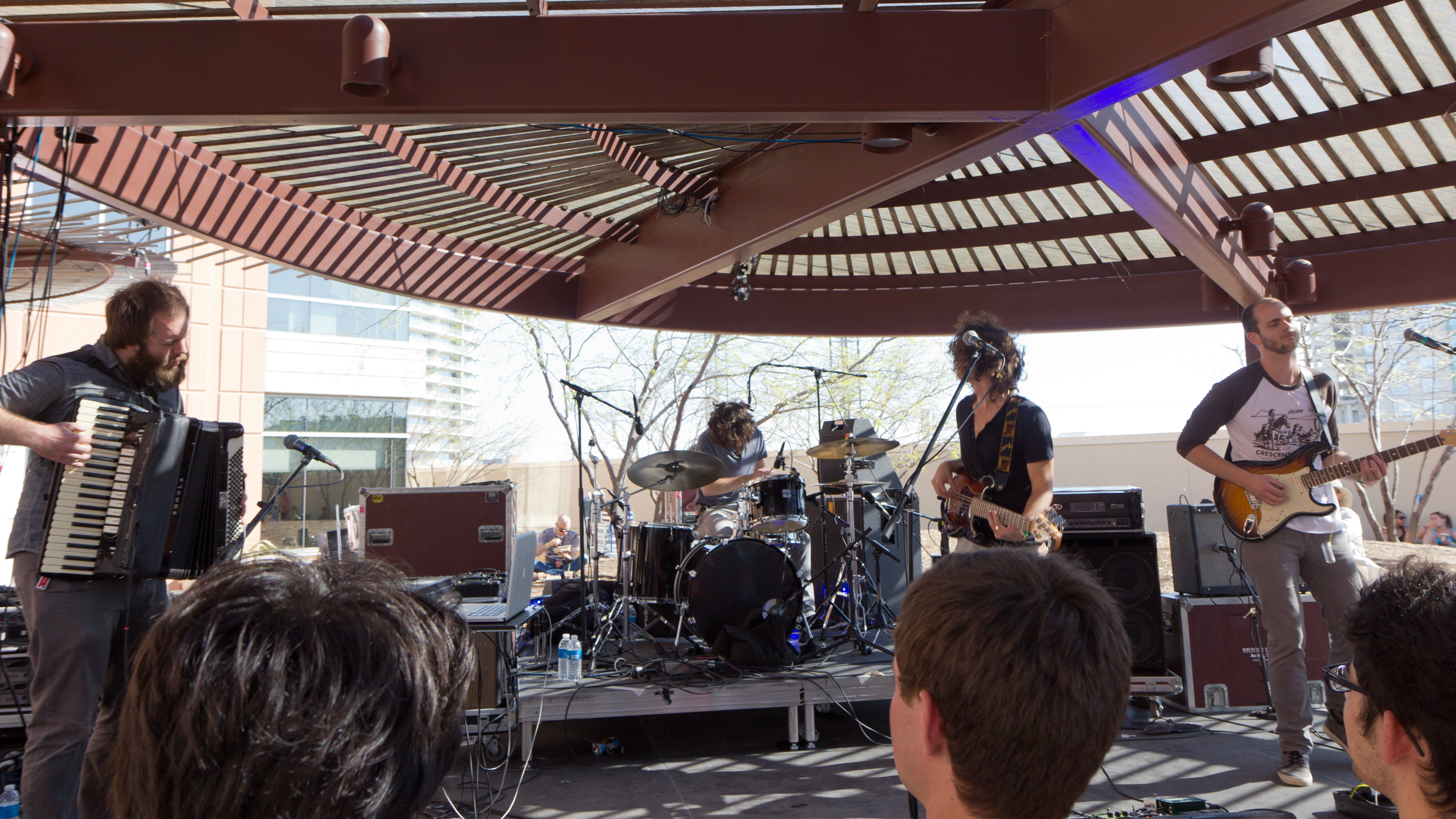 the South African alternative rock band "Kongos" (2013 in Austin, Texas)